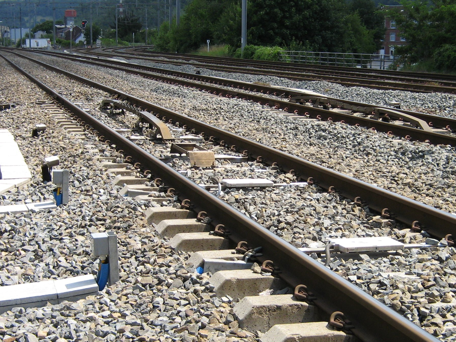 A crocodile, a TBL1 balise and two eurobalises in Angleur, Belgium